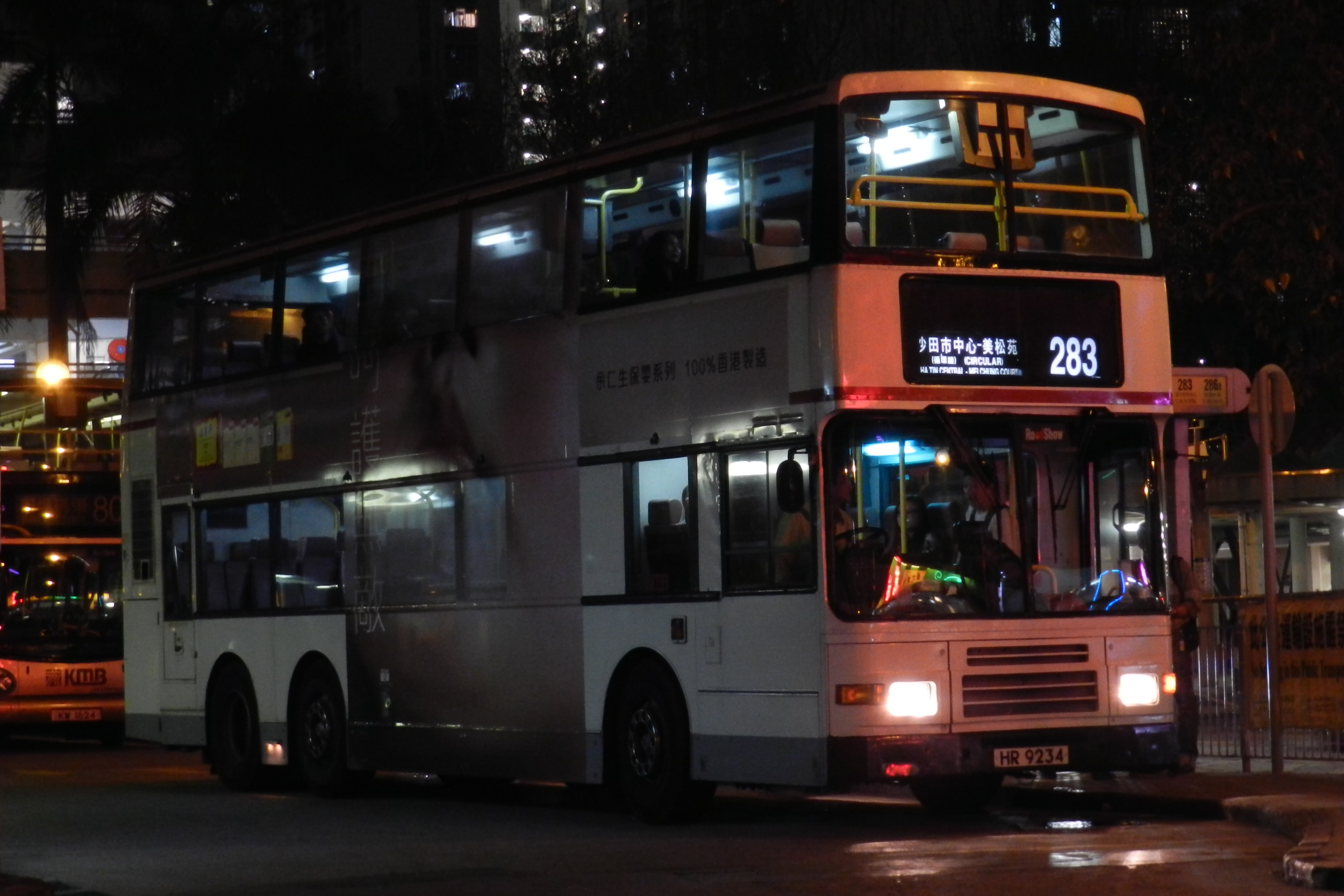 KMB Volvo Olympian 11m (AV)